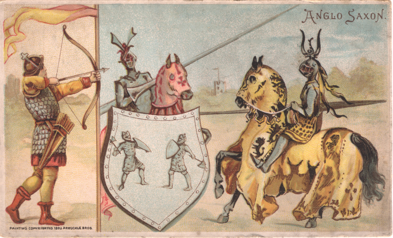 Persistent URL: Subject (TGM): Coffee industry; Archery; Knights; Horses; Armor; Jousting; Message: Keywords